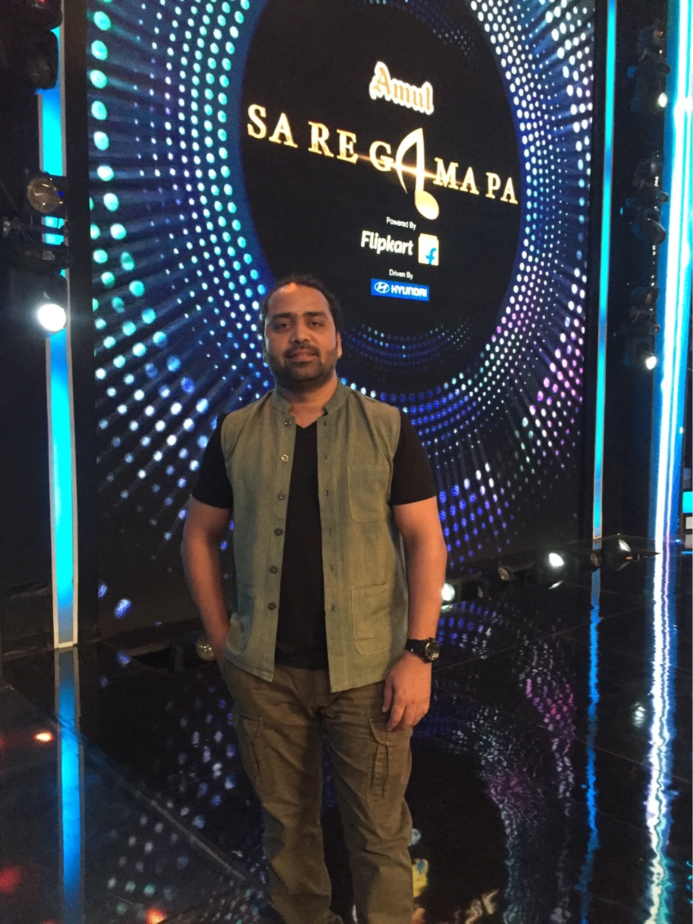 Brijesh Shandilya standing on the stage of SA RA GA MA PA in 2015